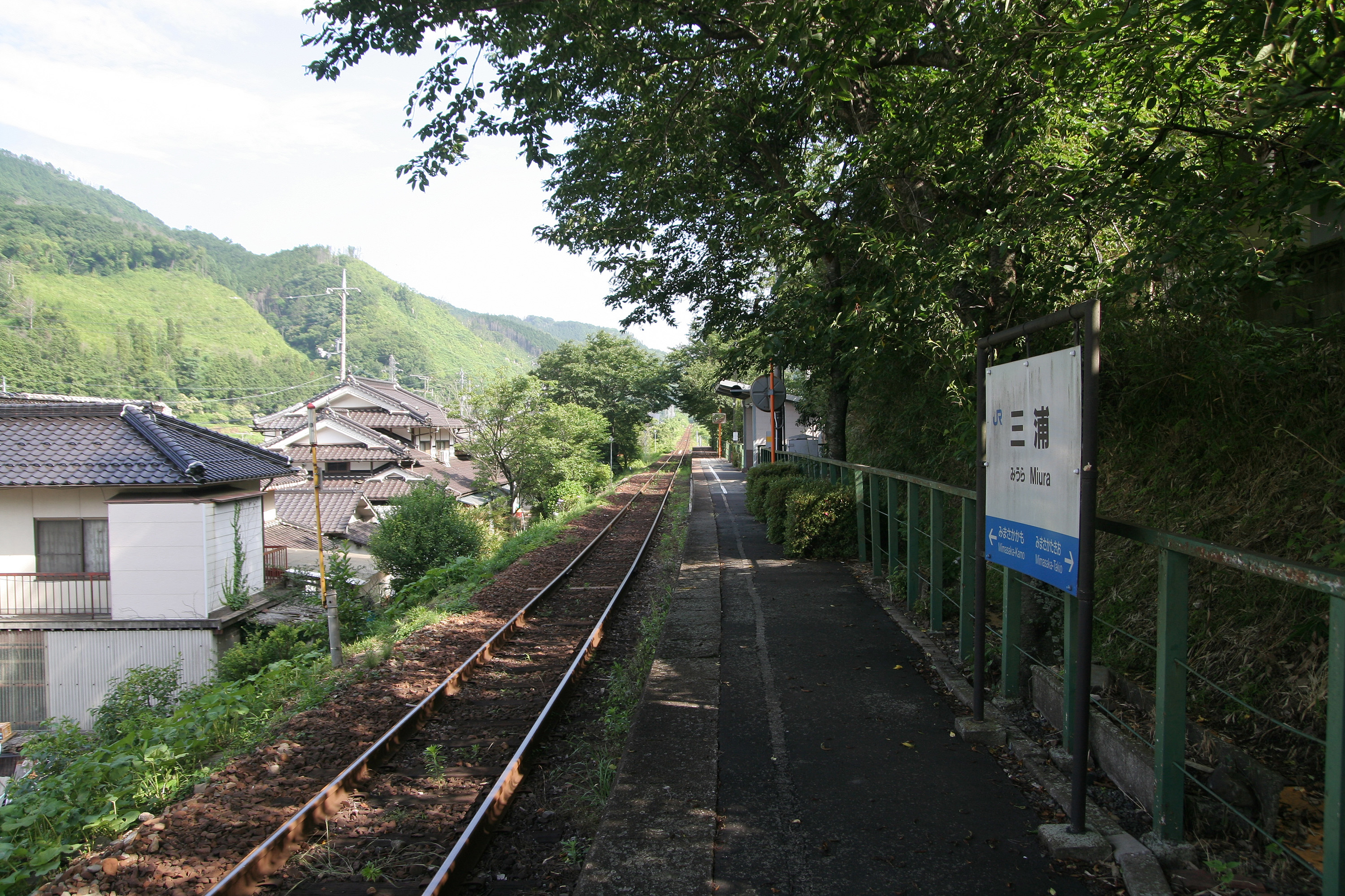 West Japan Railway Inbi Line Miura station enclosure